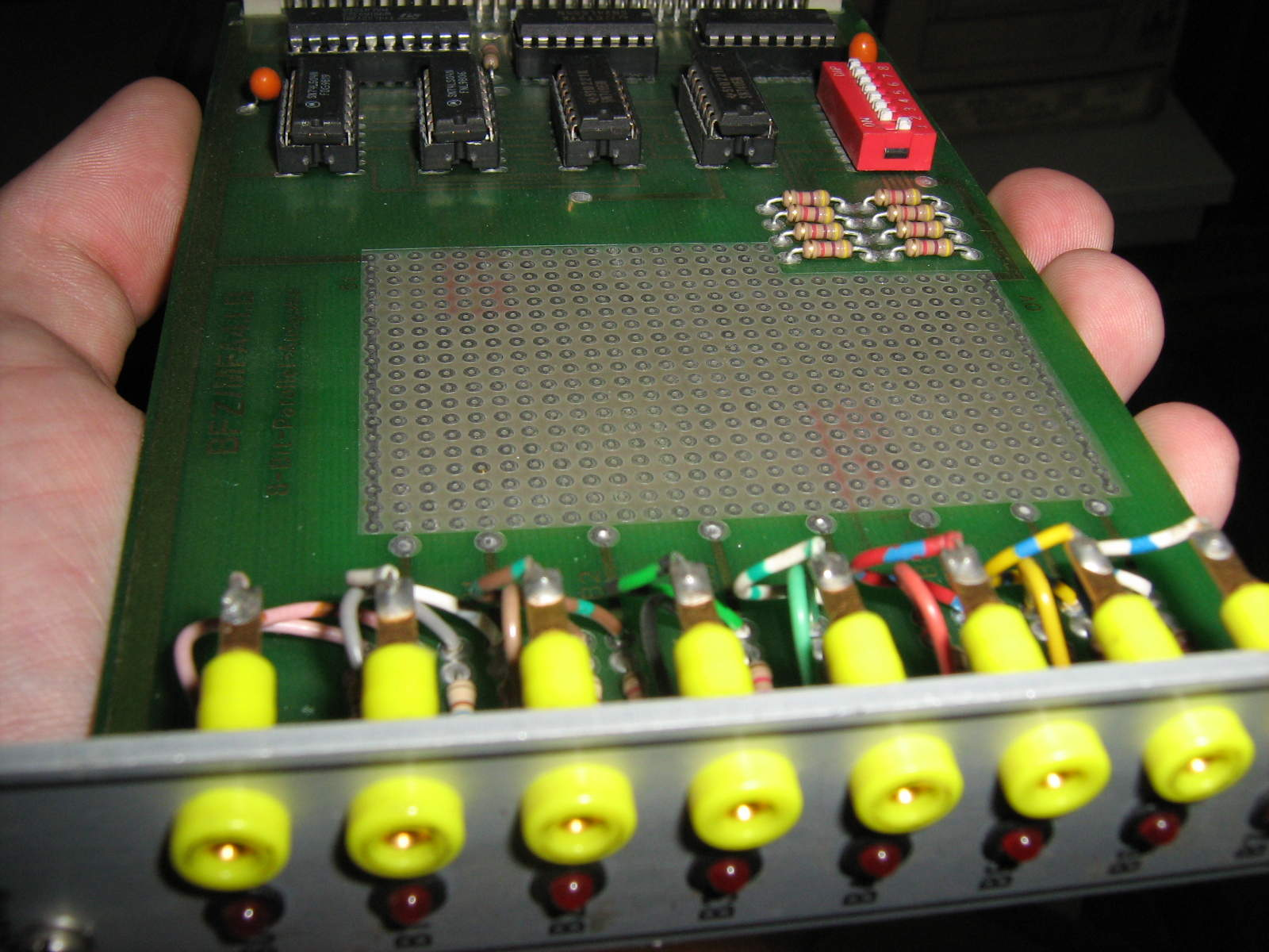 MFA